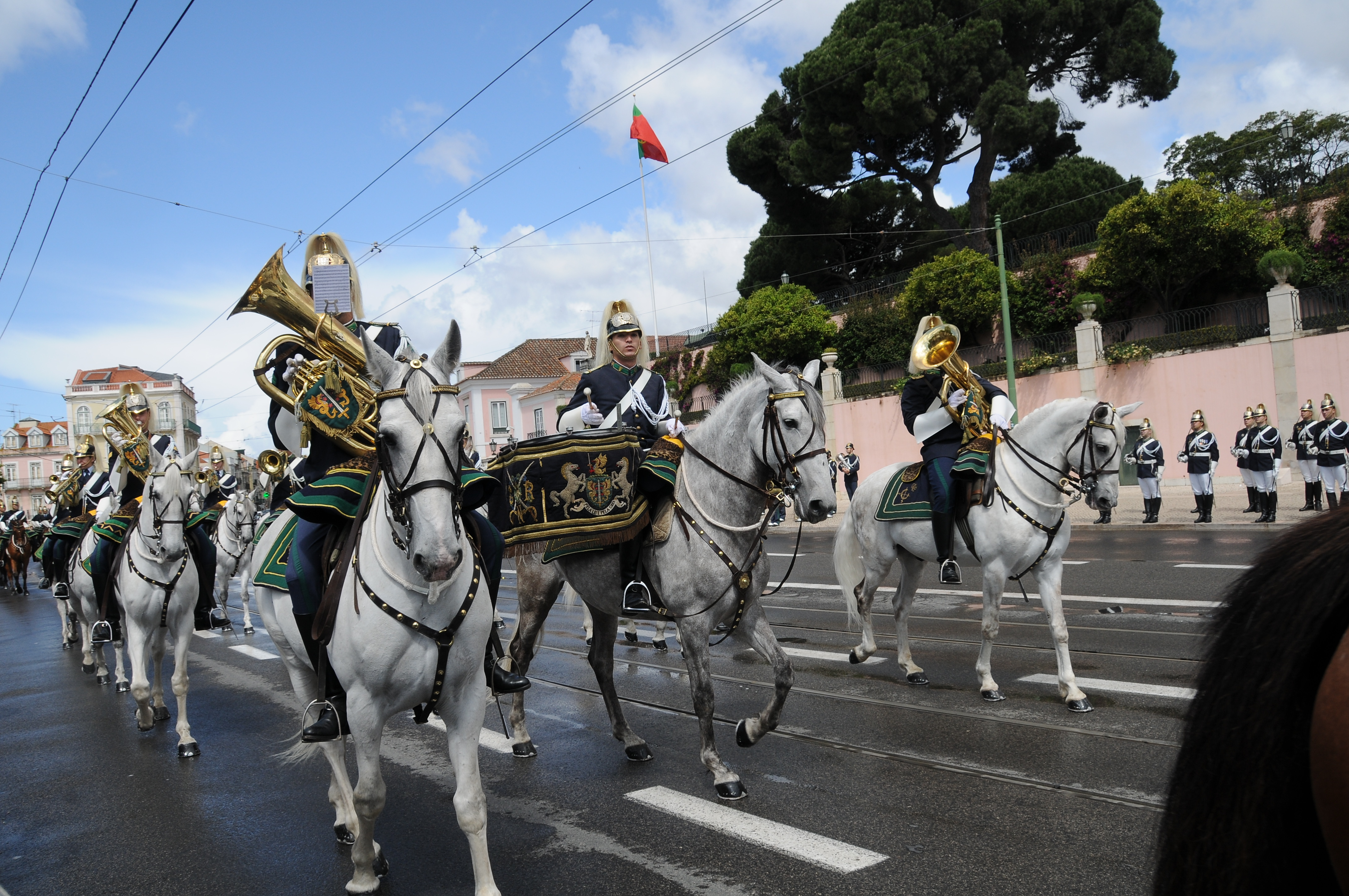 Changing of the Guard in Palácio Nacional de Belém, Lisbon, Portugal